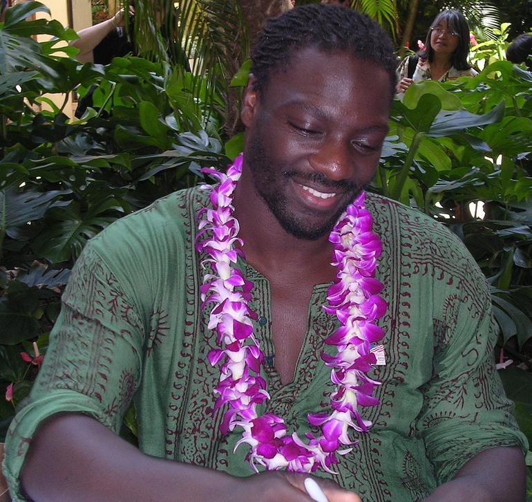 Adewale Akinnouye-Agbaje signs autographs at the "LOST" cast's benefit for the Red Cross at the Hilton Hawaiian Village.